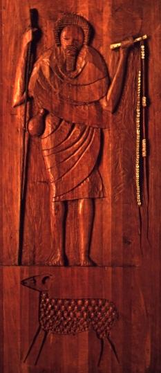 Oko - sculpture of Carybé in wood, exibit in the Museum Afro-Brazilian, Salvador, Bahia, Brasil